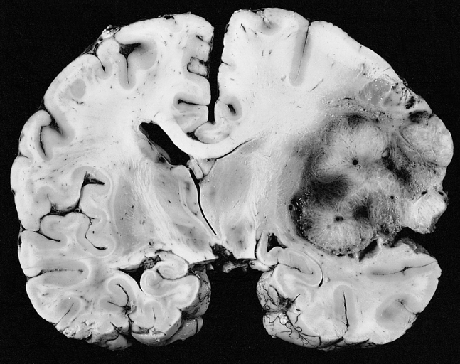 CNS: FIBROSARCOMA This leptomeningeal fibrosarcoma has produced gyral expansion in the insular region, in addition to subfalcine and transtentorial herniation.